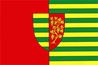 Flag of Rajon Ștefan Vodă